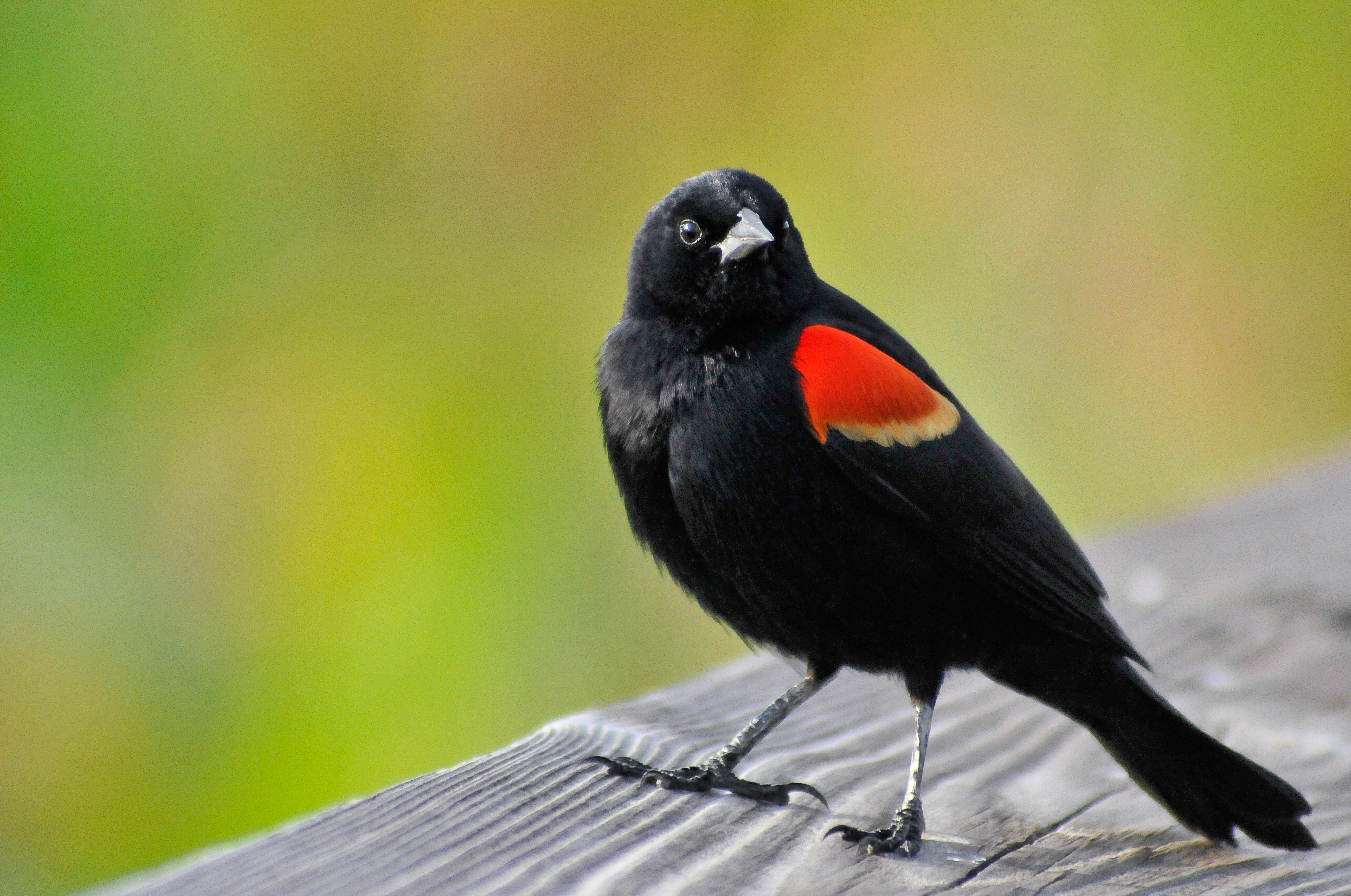 A Red-winged Blackbird standing on wood.